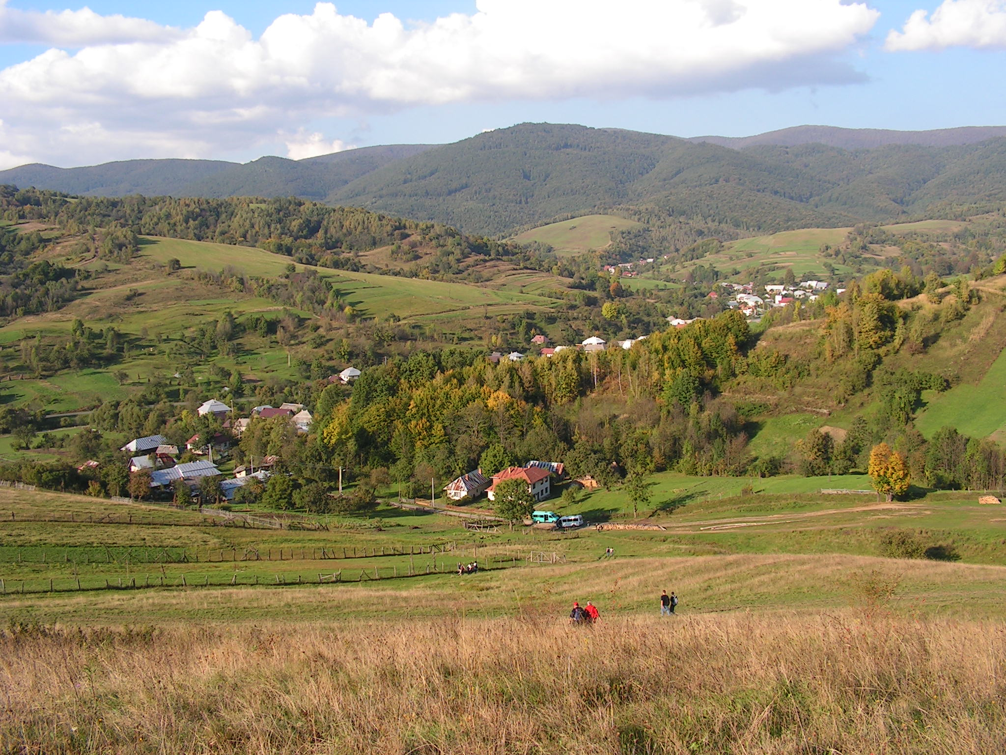 Village Nová Sedlica. sight to the to slovak-polish border.